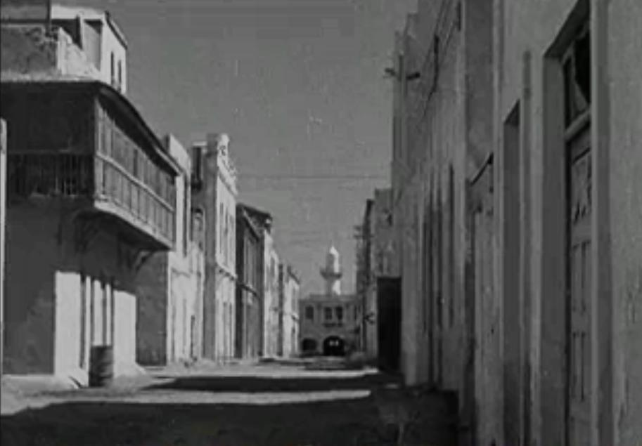 City of Djibouti in 1940s